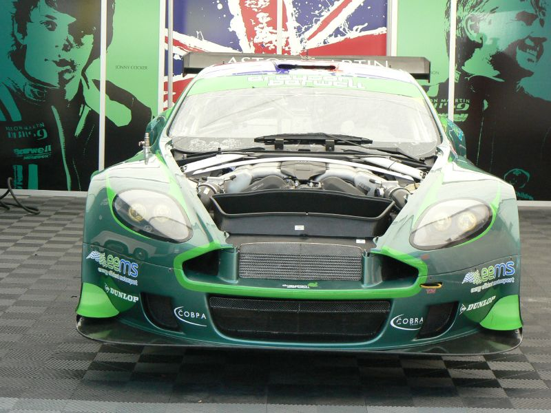 Drayson-Barwell's Aston Martin DBRS9